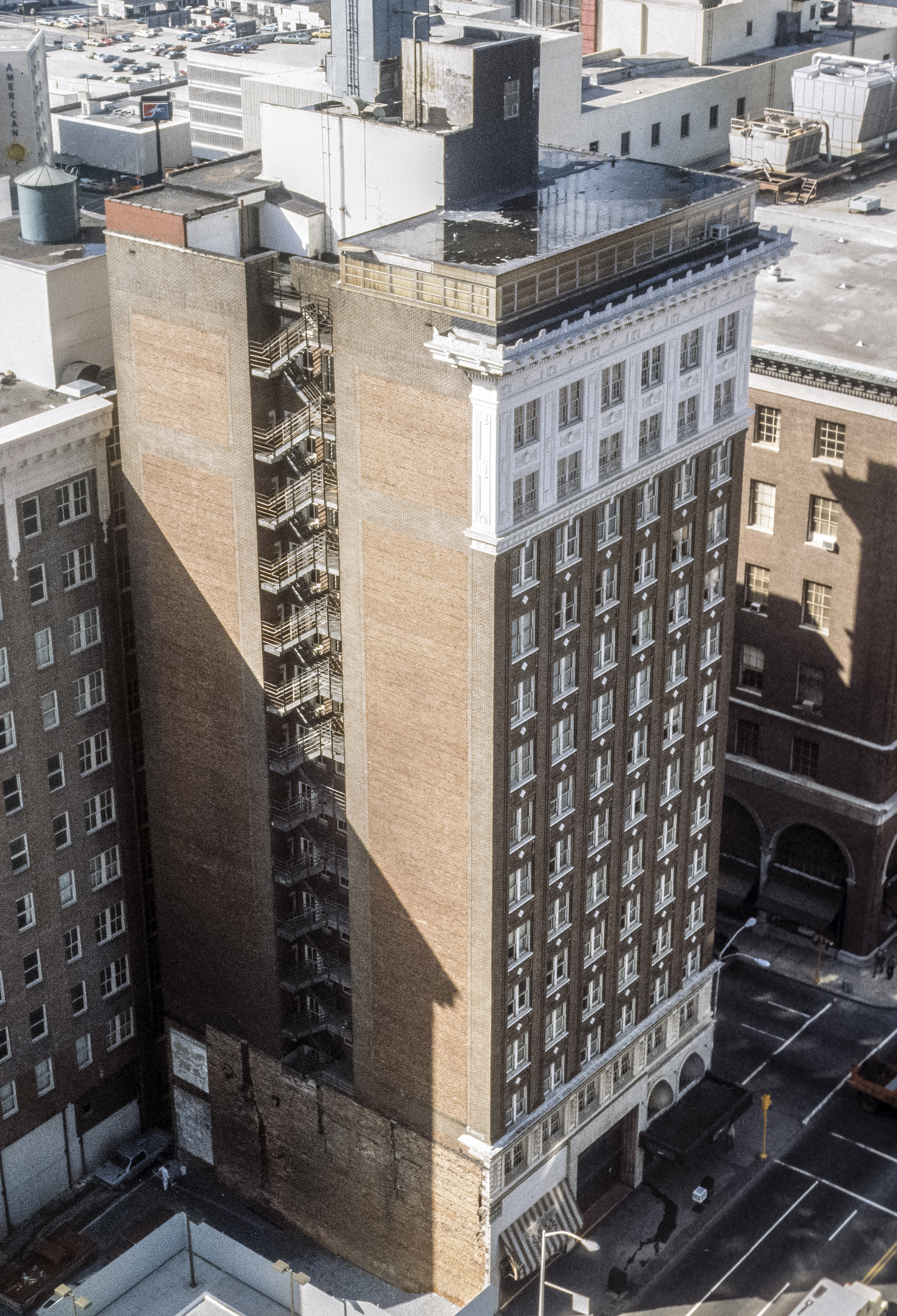 The Winecoff Hotel from the Georgia-Pacific Building, Atlanta, Georgia, USA. Scanned Ektachrome slide.